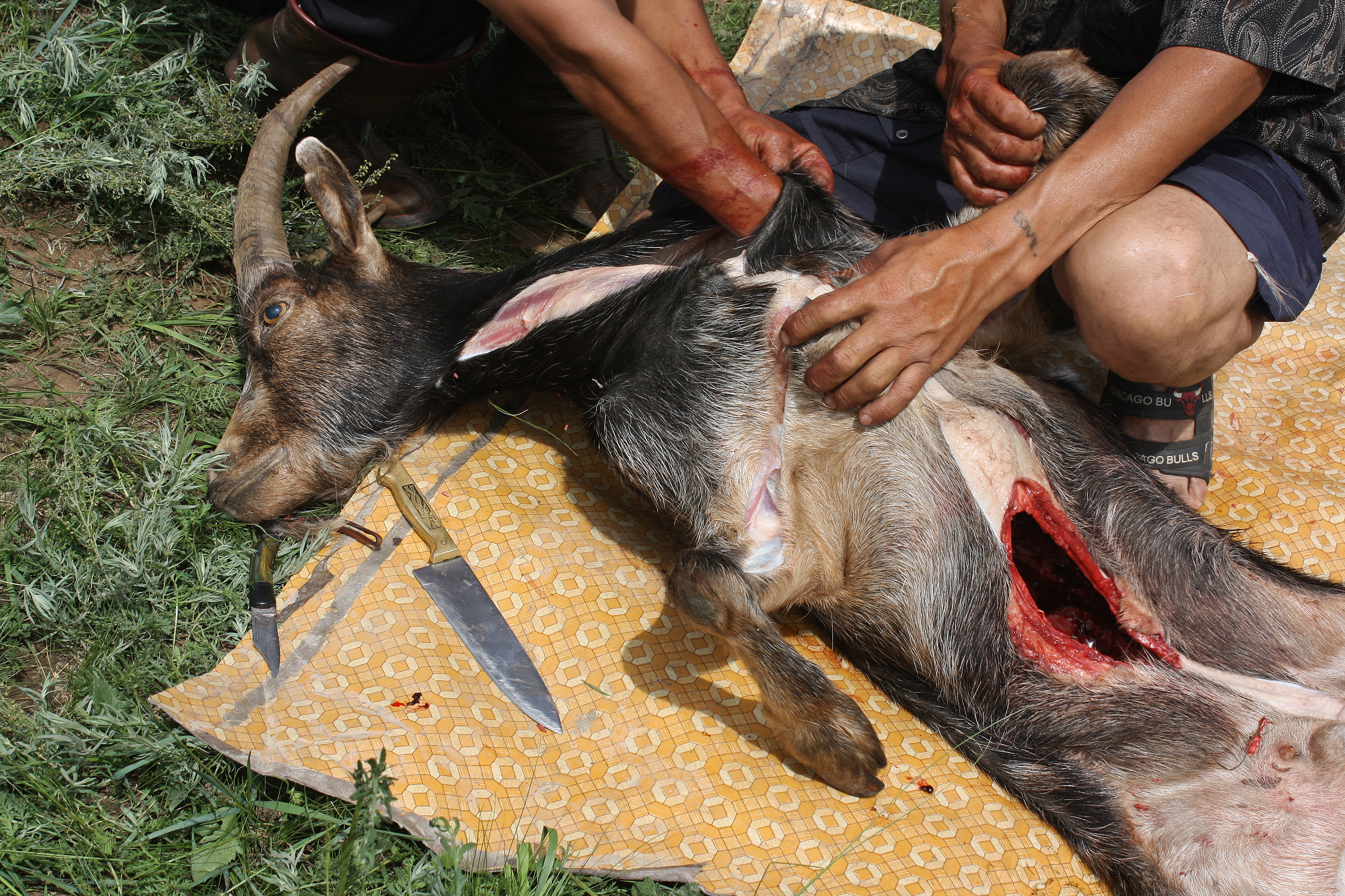 Notice the tattoo on the arm of the guy on the right? It says "Love." This may be my favorite picture that I took over the course of the 10 days we were in Mongolia.